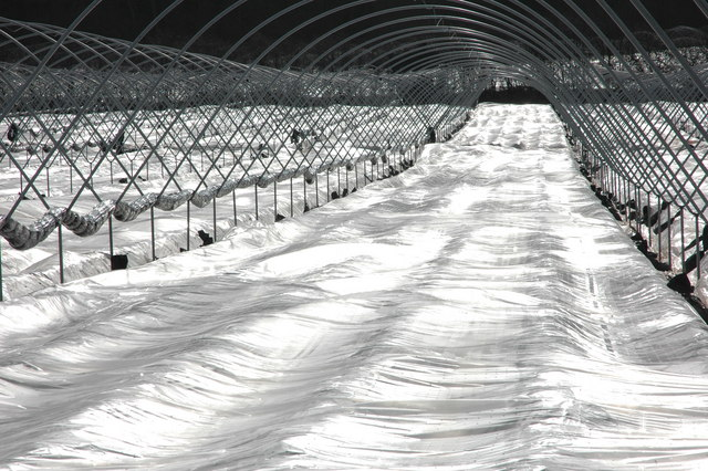 Poly-Tunnel-Land, near Brierley. Strawberry plants are under these sheets of polythene.